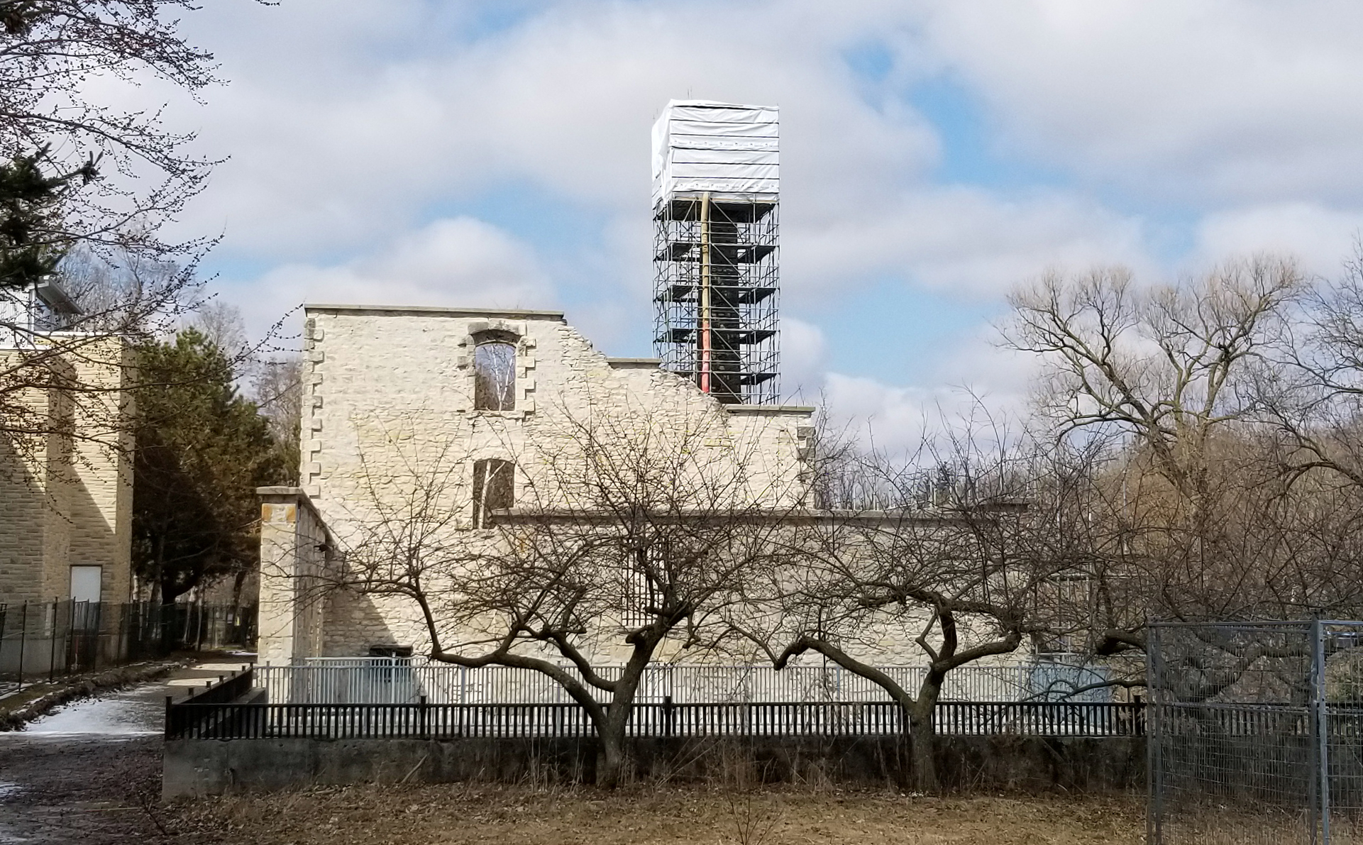 Goldie Mill ruins, Guelph under retortation, including the smoke stack, March 2020